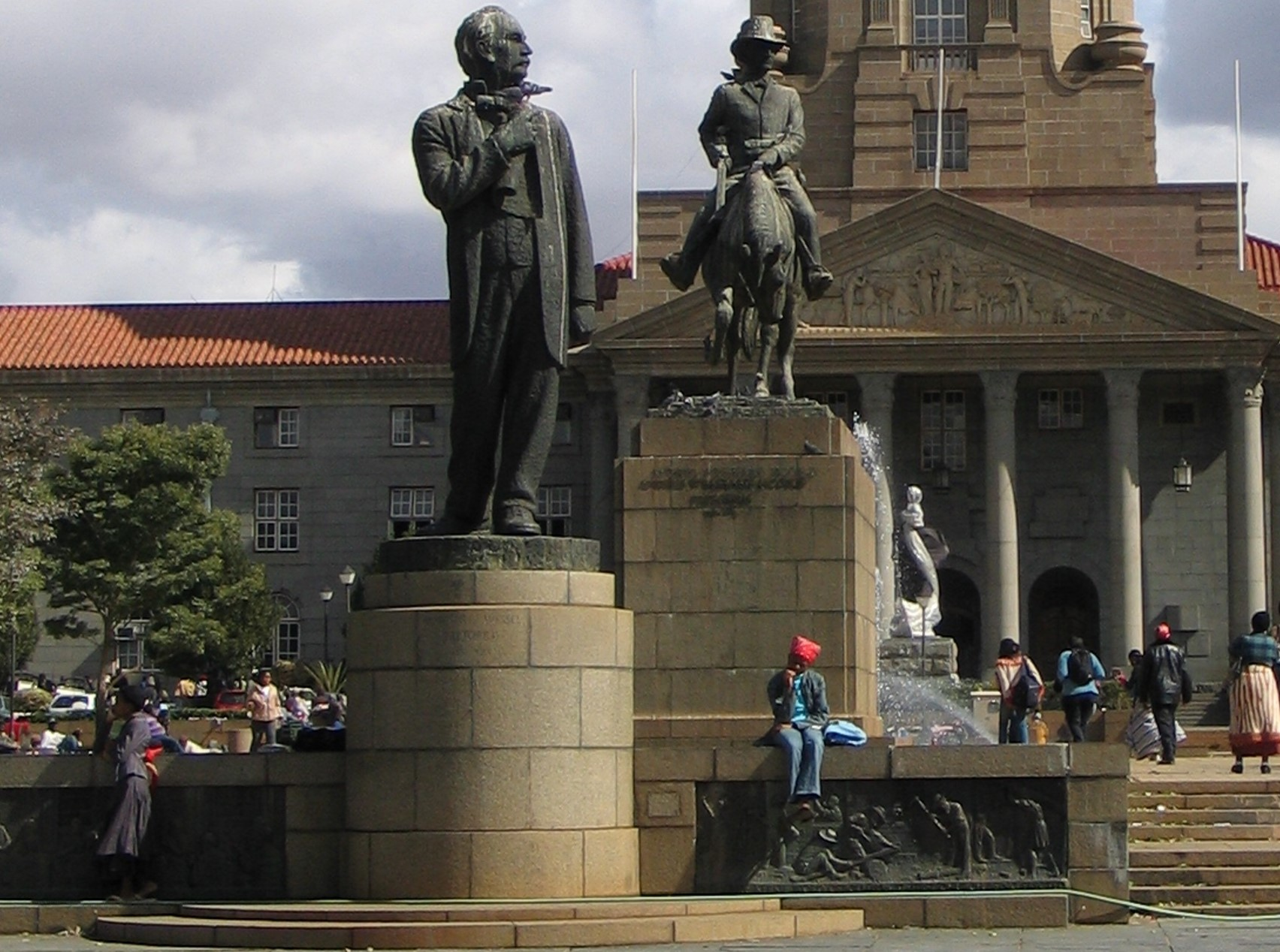 Statue of Marthinus Wessel Pretorius and Statue of Andries Pretorius, Pretorius Square